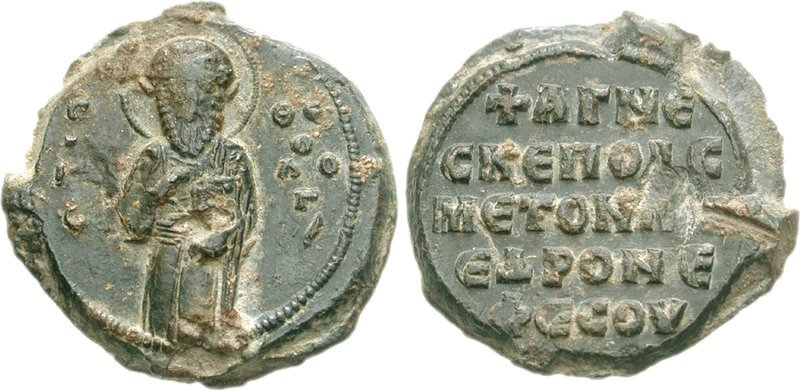 Anonymous Bishop of Ephesus. Circa 11th-12th centuries. PB Seal (26mm, 17.75 g, 12h). O/Iw/O down left field; QE/O/LO/G/´ down right field; St. John standing facing, holding Gospel book in left hand, right hand in benediction / +AGNE/ CKEPOIC/ ME TON [PRO]/EDRON E/FCOV in five lines. Cf. BLS II, 682 (different obv., same rev.); DOCBS III 14.9 var. (rev. inscription); Seyrig -; Vatican -; Orghidan -; Jordanov -;. Good VF, small scrape on reverse, some deposits. Gray surfaces.